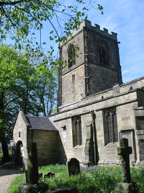 Nave, west tower and south porch of All Saints' parish church, Brailsford, Derbyshire, seen from the southeast